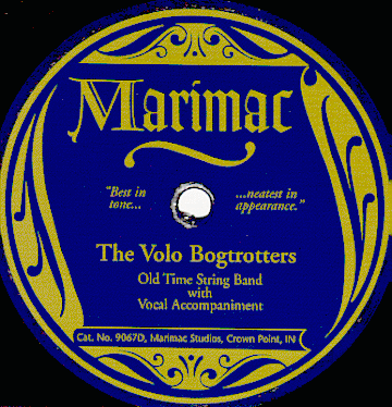 picture of volo bogtrotters CD